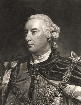 Hugh Percy, 1st Duke of Northumberland (1712-1786)